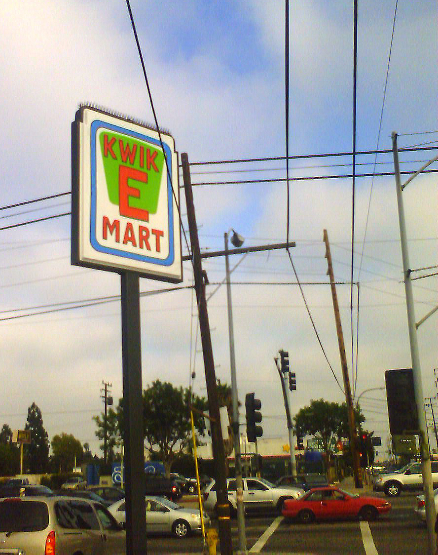 A sign for a 7-Eleven store in Los Angeles that, during a promotion for The Simpsons Movie, changed its appearance into a Kwik-E-Mart